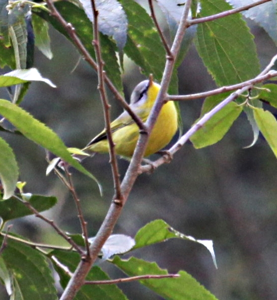 Grey-hooded Warbler